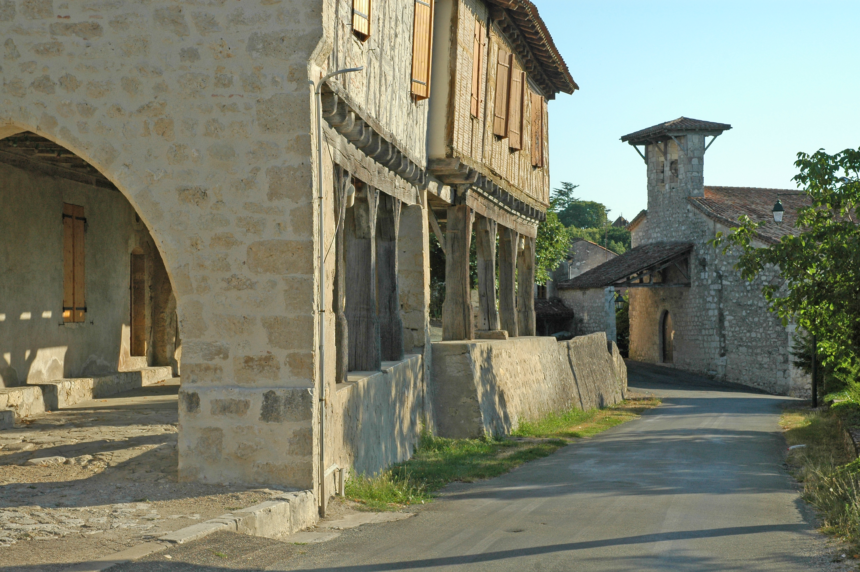 Center of Saint-Antoine-de-Ficalba.